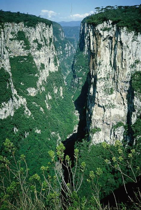 Itaimbezinho Canyon in Aparados da Serra National Park, Brazil